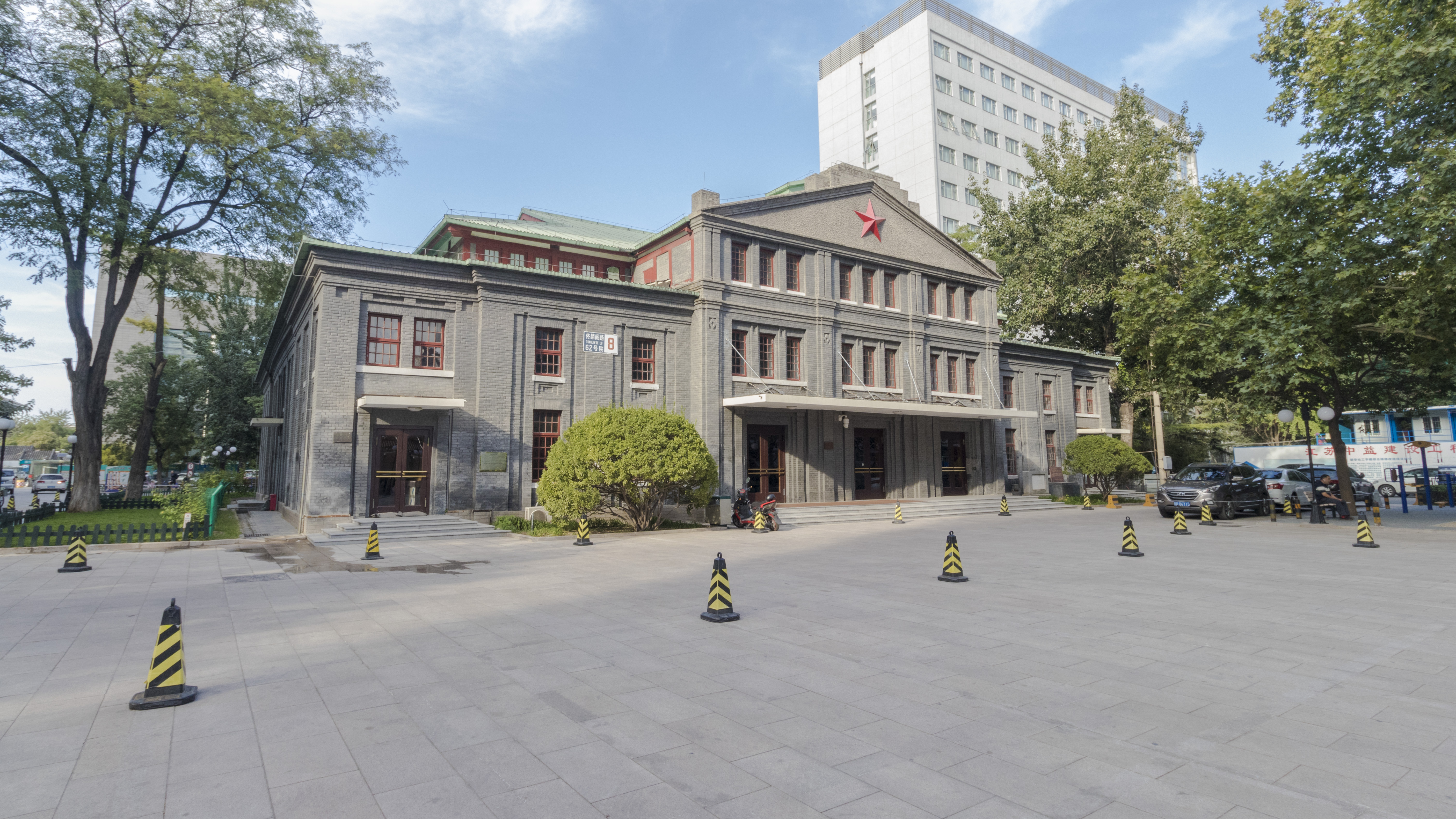 Located in Tong Linge Rd, Xicheng District, Beijing. Now the building is served as the auditorium of the Xinhua News Agency 中文（中国大陆）: 位于北京市西城区佟麟阁路，现为新华通讯社礼堂